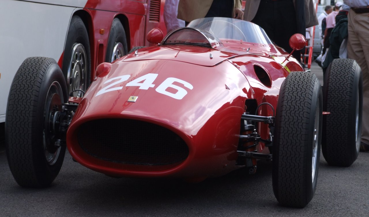 A Beautiful Ferrari race car, seemingly left abandoned by the side of the pits at the Festival of Speed 2007. If you looked around you'd have seen a number of engineers discretely keeping an eye on it though...